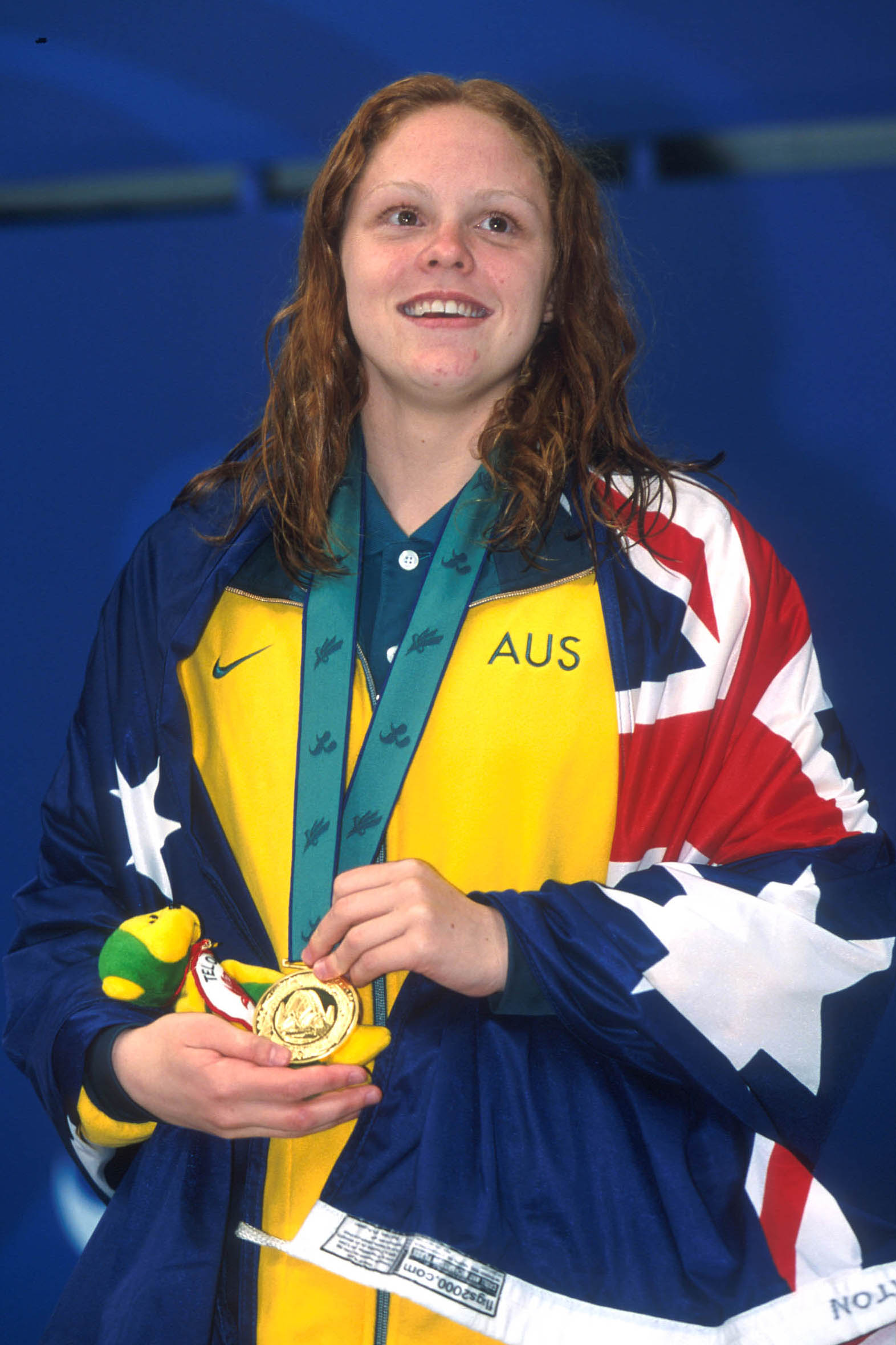 Australian swimmer Siobhan Paton on the podium at the Sydney 2000 Paralympics after winning gold